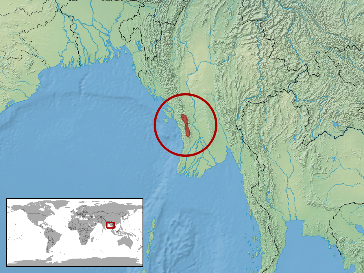 geographic distribution of Cyrtodactylus wakeorum (Native: Myanmar)